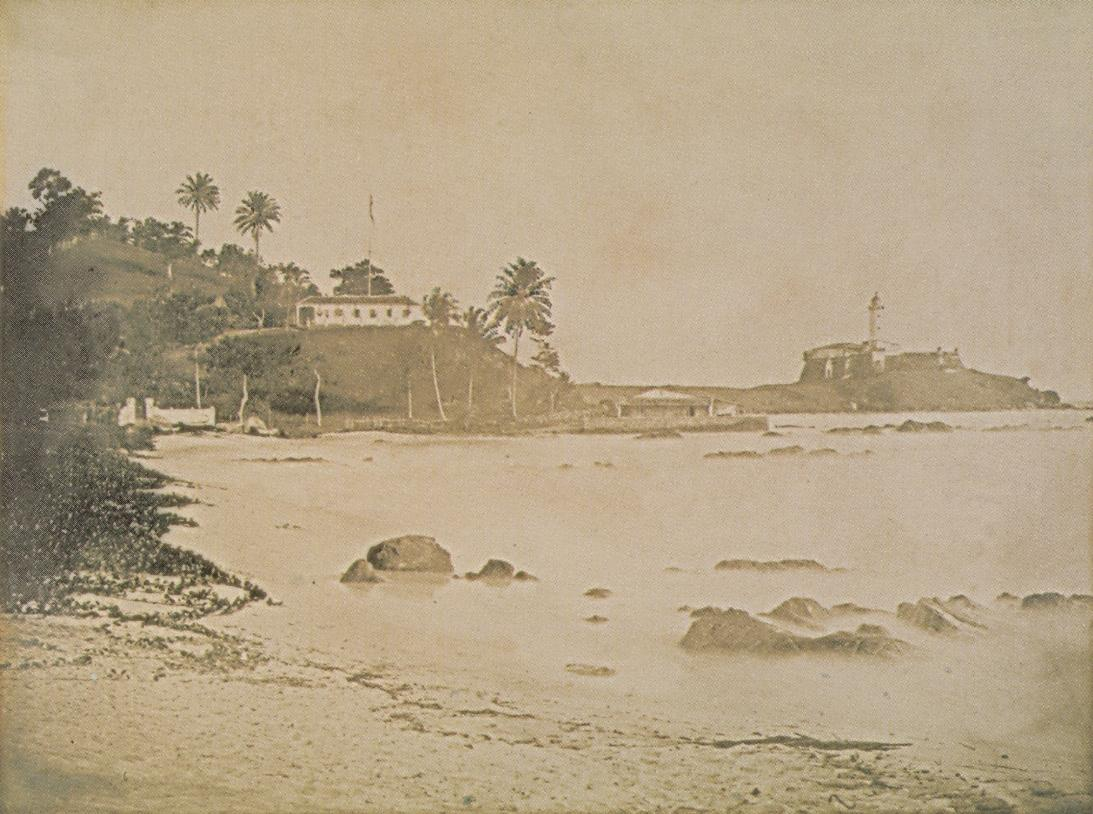 Beach of the Lighthouse of Barra on Salvador, province of Bahia, 1858.